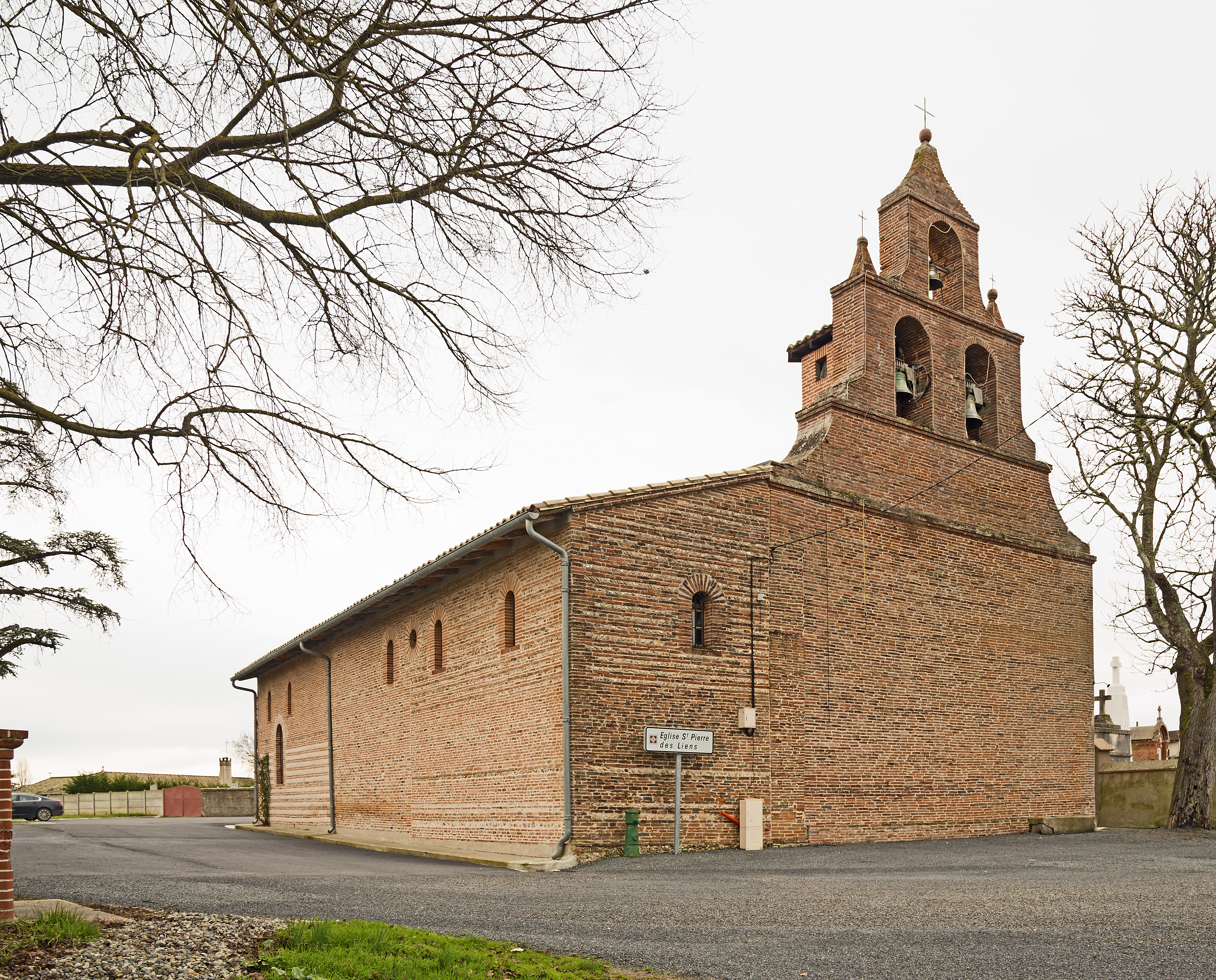 Villematier, Church Saint Pierre des liens